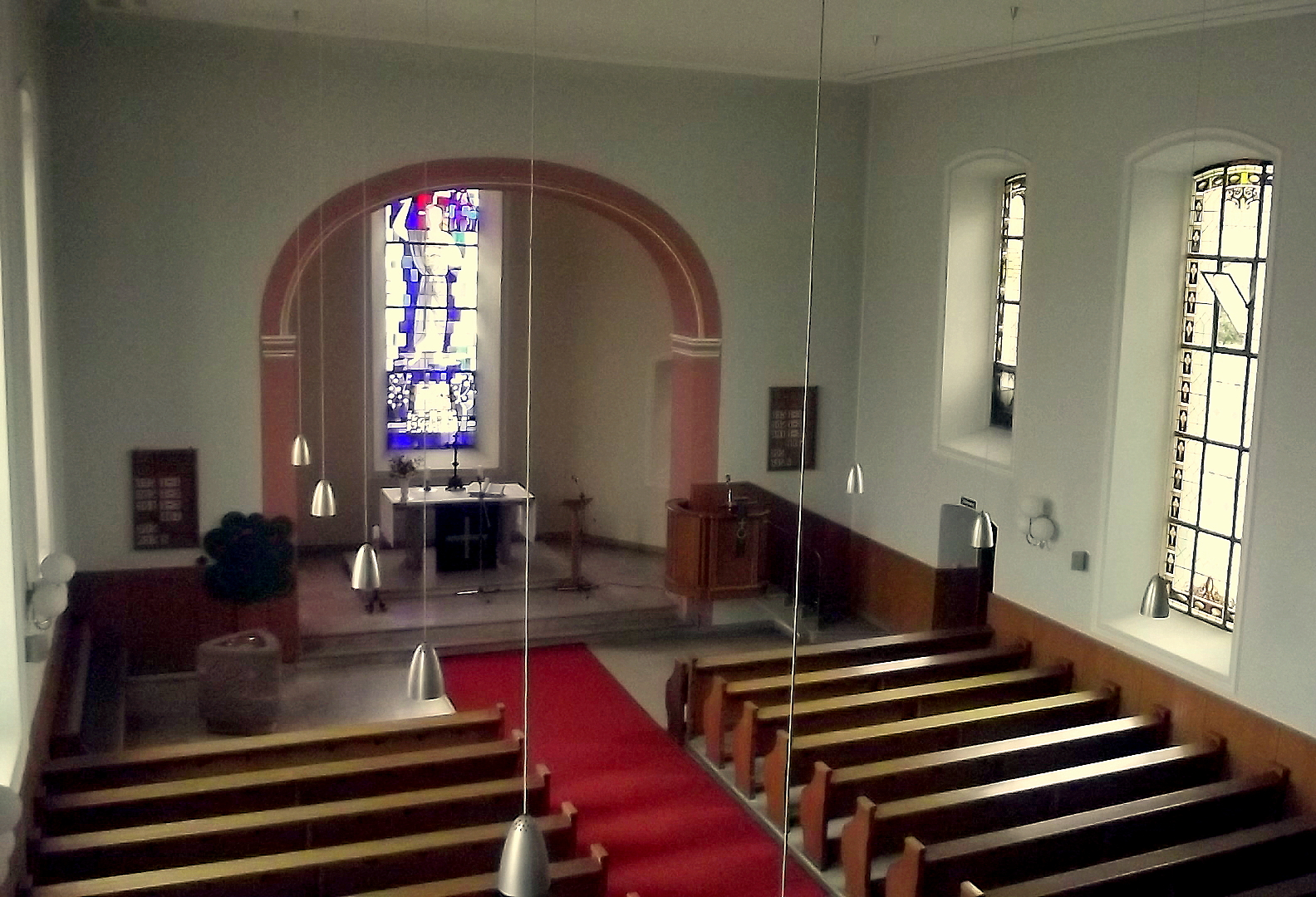 Interior of the protestant church in Güdingen, Saarland, Germany